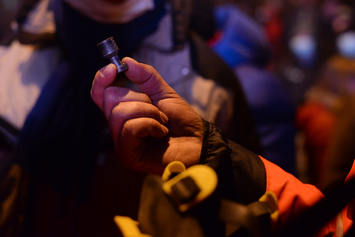 Ukrainian Red Cross Society volunteer demonstrating a piece of metal (probably so-called Rubeykin bullet) fitting used by military troops to fight back protesters attacks. Euromaidan Protests. Events of Jan 19, 2014